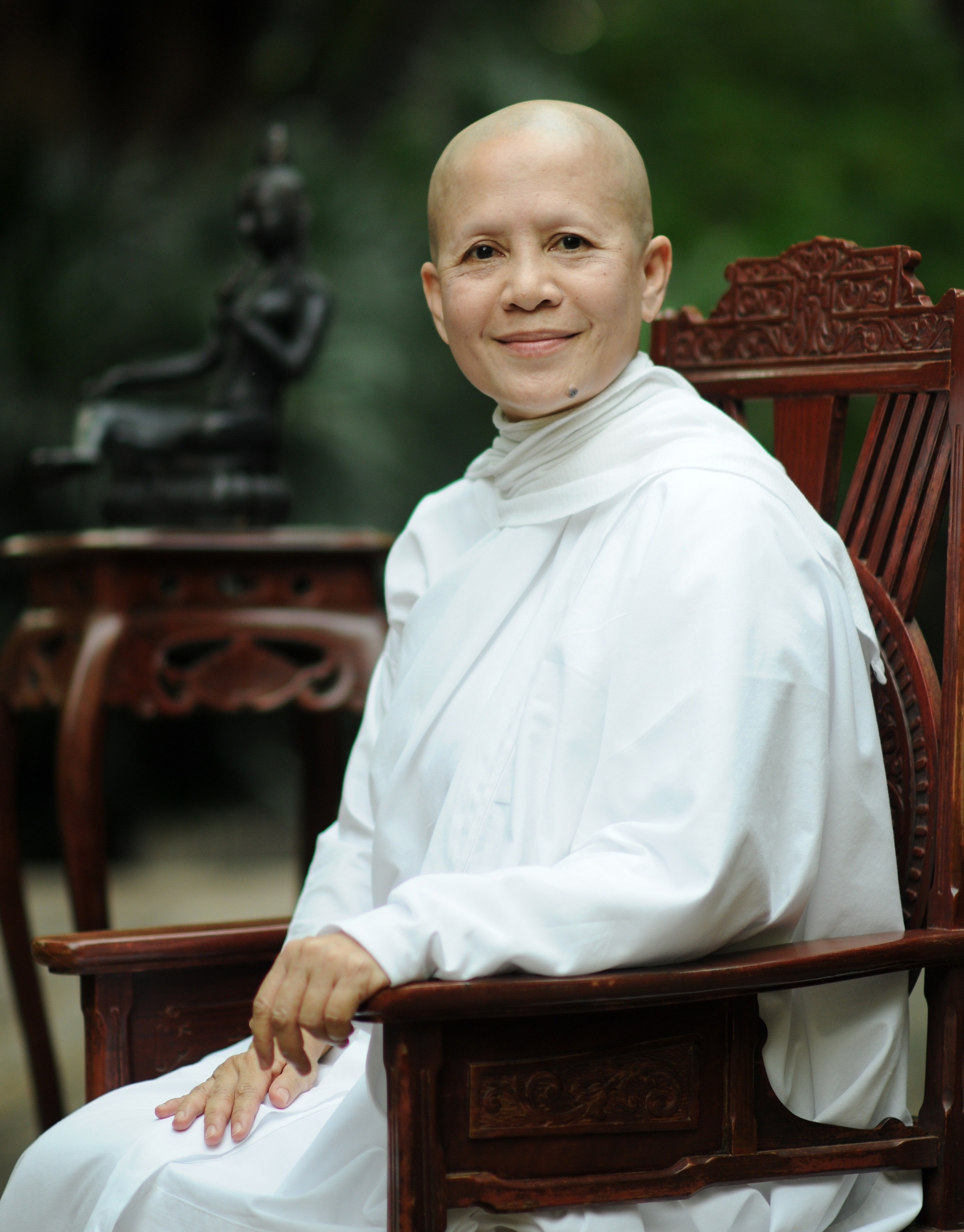 Mae Nee Sansanee Sathien Sut